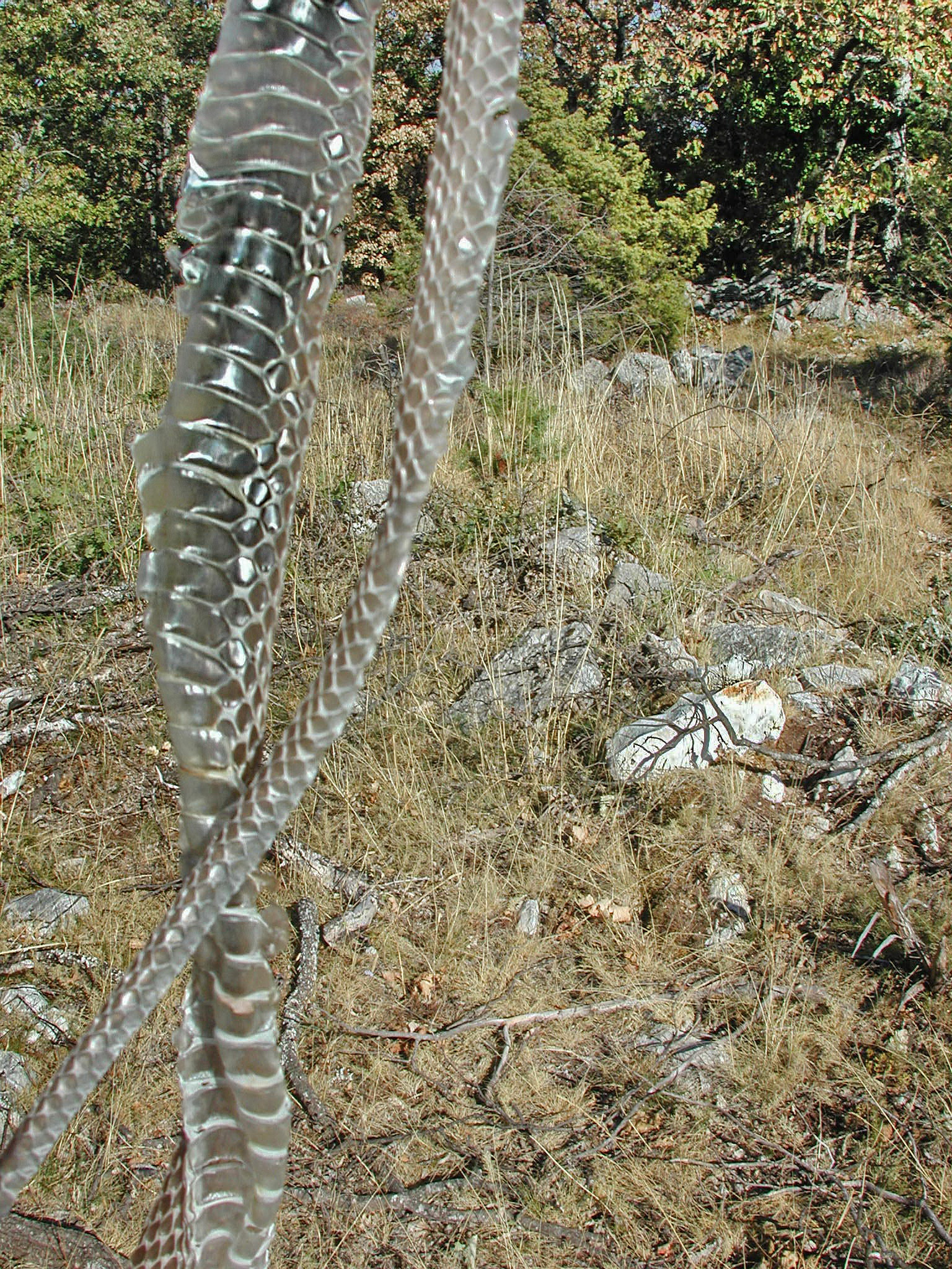 Canjuers military camp : malpolon monspssulanus sloughing